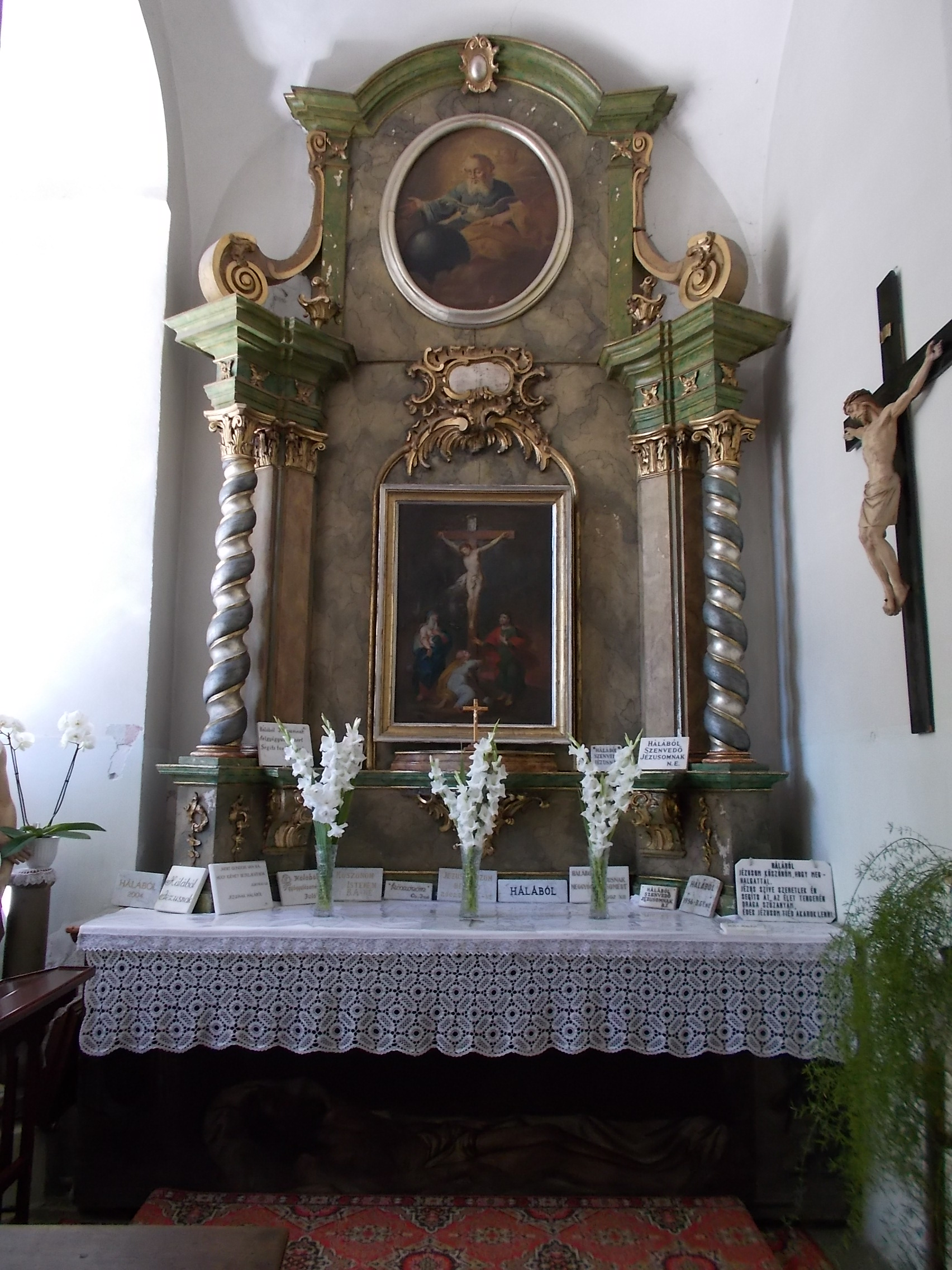 Holy Cross chapel (after 1746) at the entrance of Holy Trinity Piarist church. Planned by András Mayerhoffer in 1742. Extended with tower in 1765 by József Peithmüller - Jókai Street, Bethlenváros, Kecskemét, Bács-Kiskun County, Hungary.